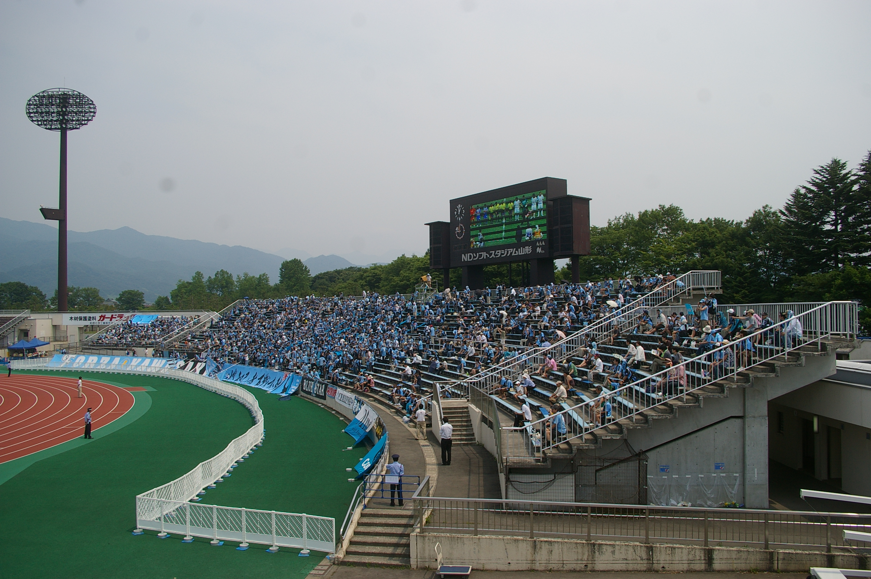 NDsoftstadium.yamagata-ken,tendo-shi